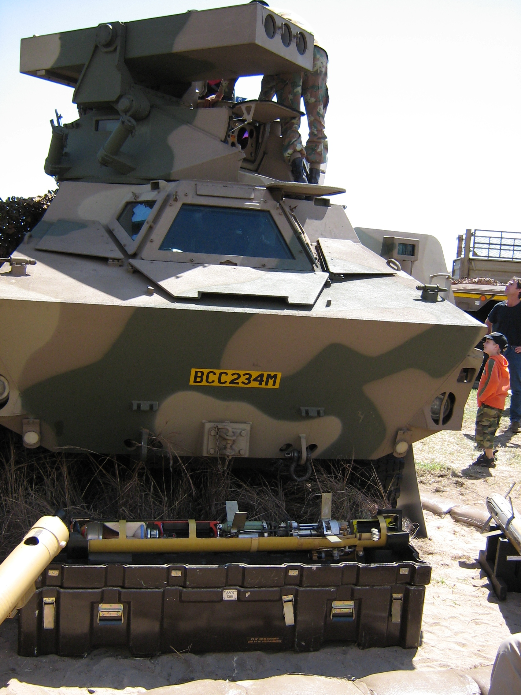 Front view of ZT3 version of Ratel IFV as displayed at Africa Aerospace & Defence expo, 2006. Cut away of main armament in front is the Ingwe anti-tank guided missile.